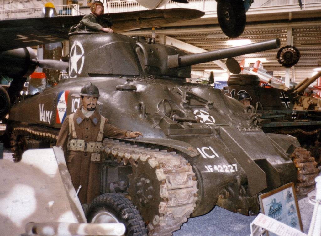 M4 Sherman in version M4A1 Picture taken/uploaded by Darkone